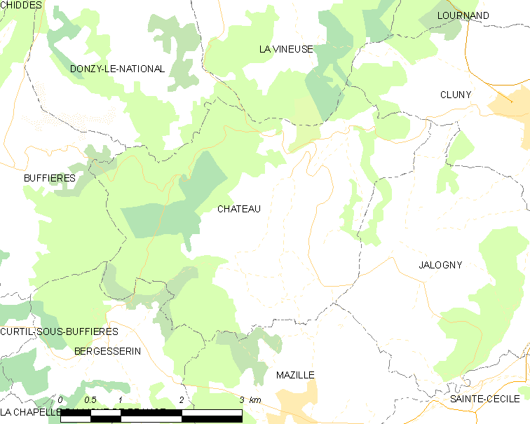 Map of French municipality